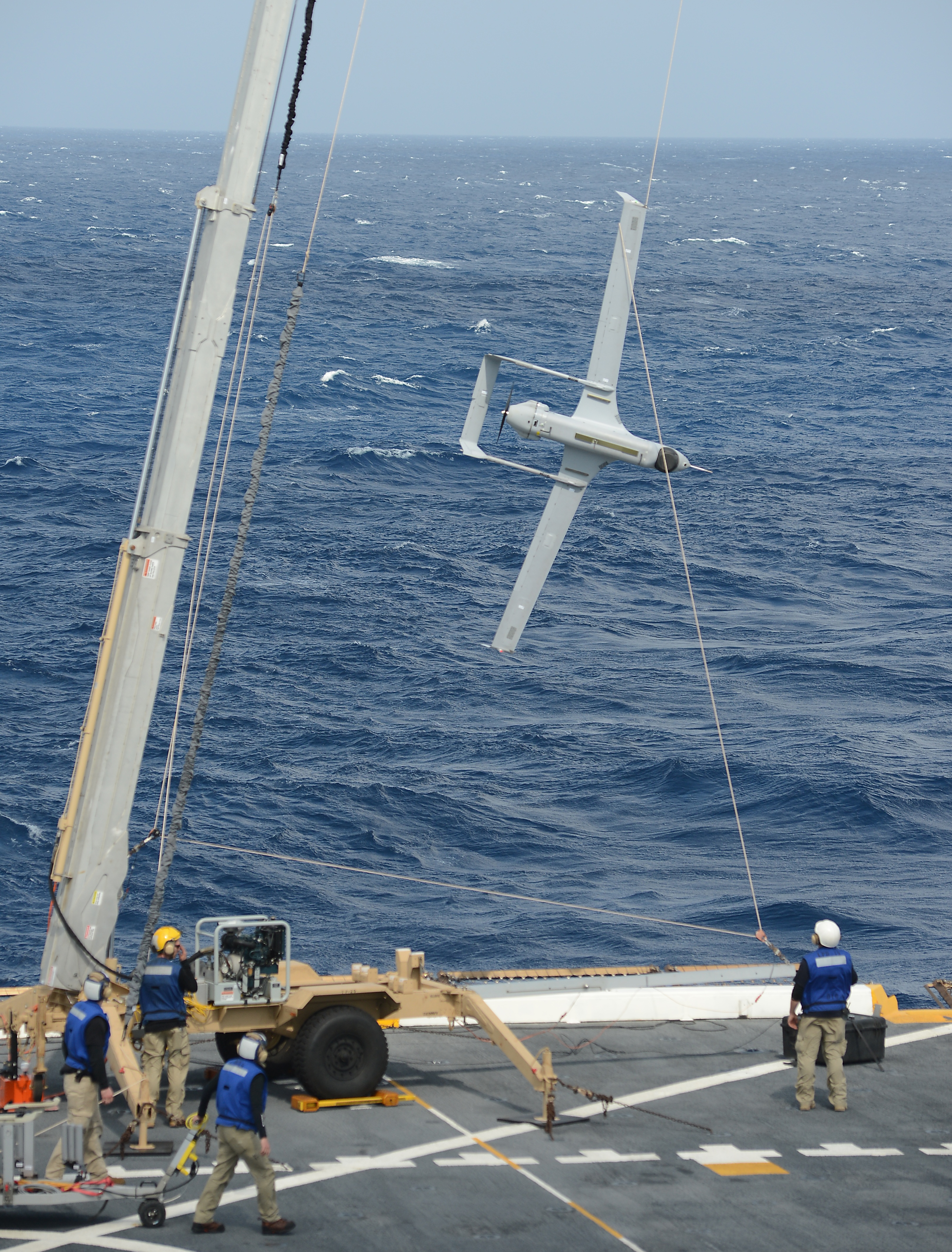 130210-N-NB538-168 GULF OF MEXICO (Feb. 10, 2013) The RQ-21A Small Tactical Unmanned Air System (STUAS) is recovered with the flight recovery apparatus cable aboard the San Antonio-class amphibious transport dock USS Mesa Verde (LPD 19) after its first flight at sea. Mesa Verde is underway conducting exercises.